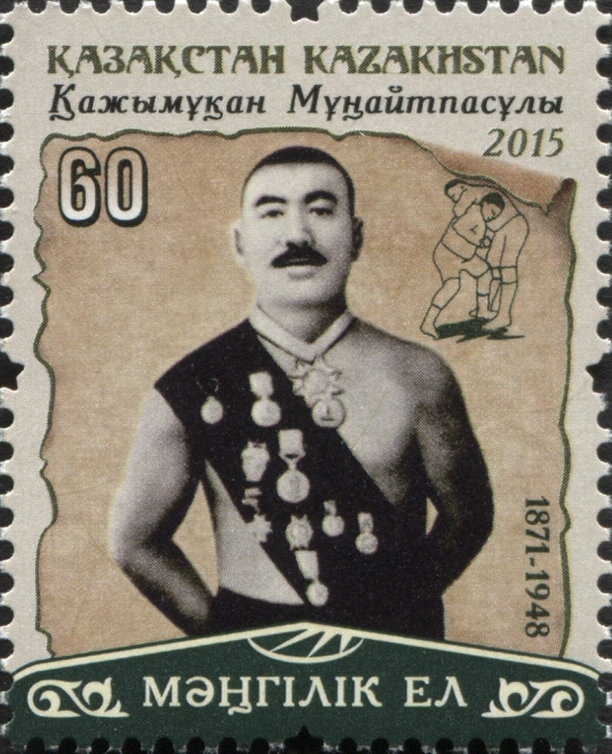 Sports Legends - Kazhymukan Munaitpasov - World Greco-Roman Wrestling Champion